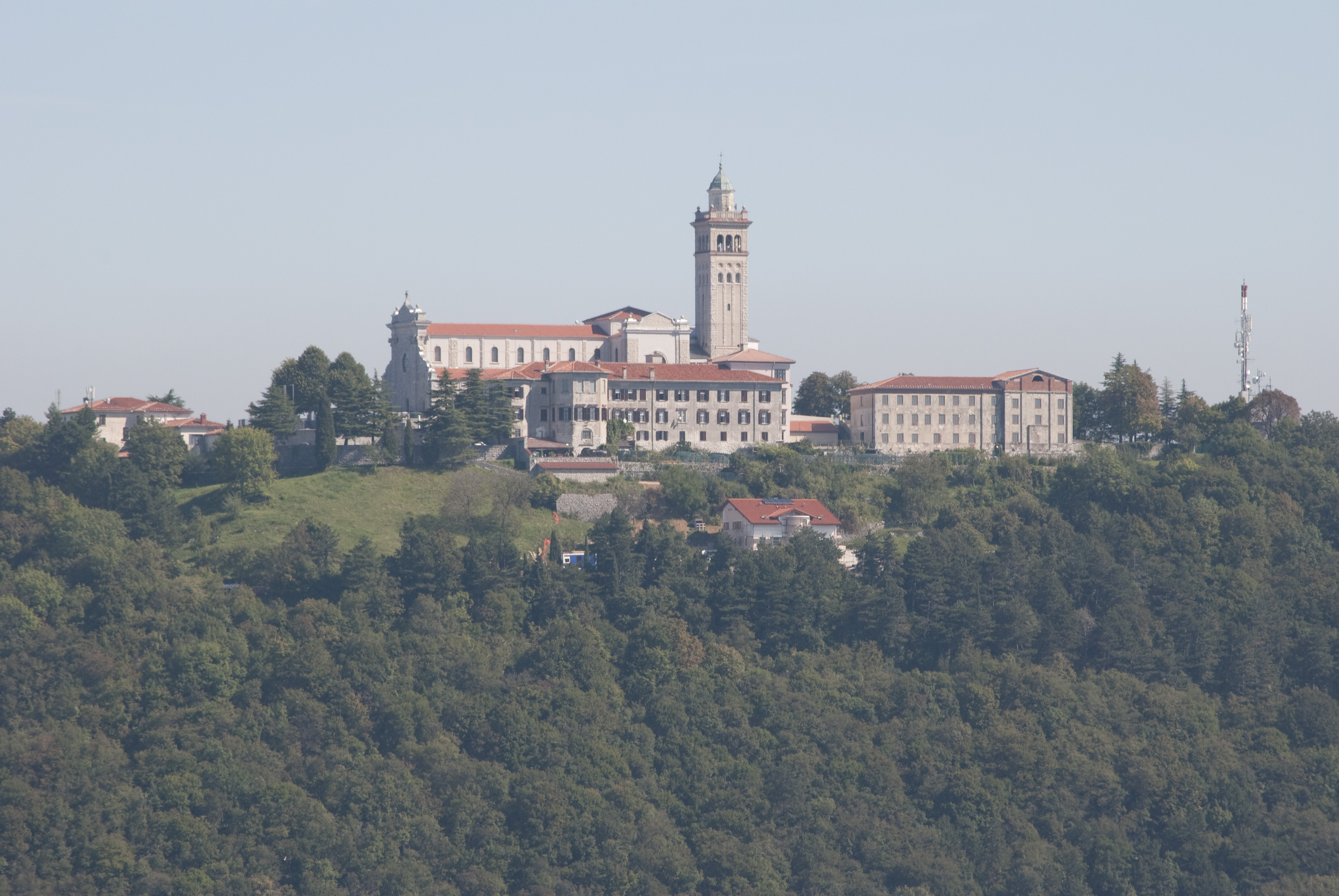 Sveta Gora, church of St.Mary, above Solkan, Slovenia